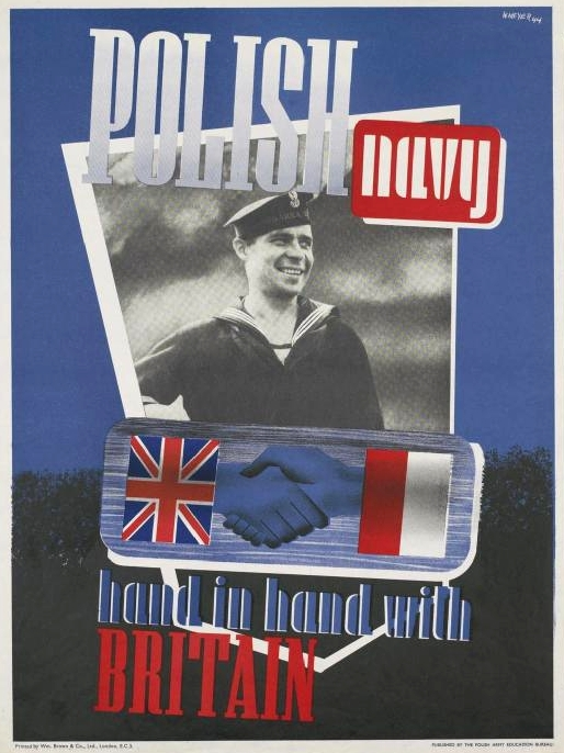 Polish Navy Hand in Hand with Britain WWII propaganda poster.